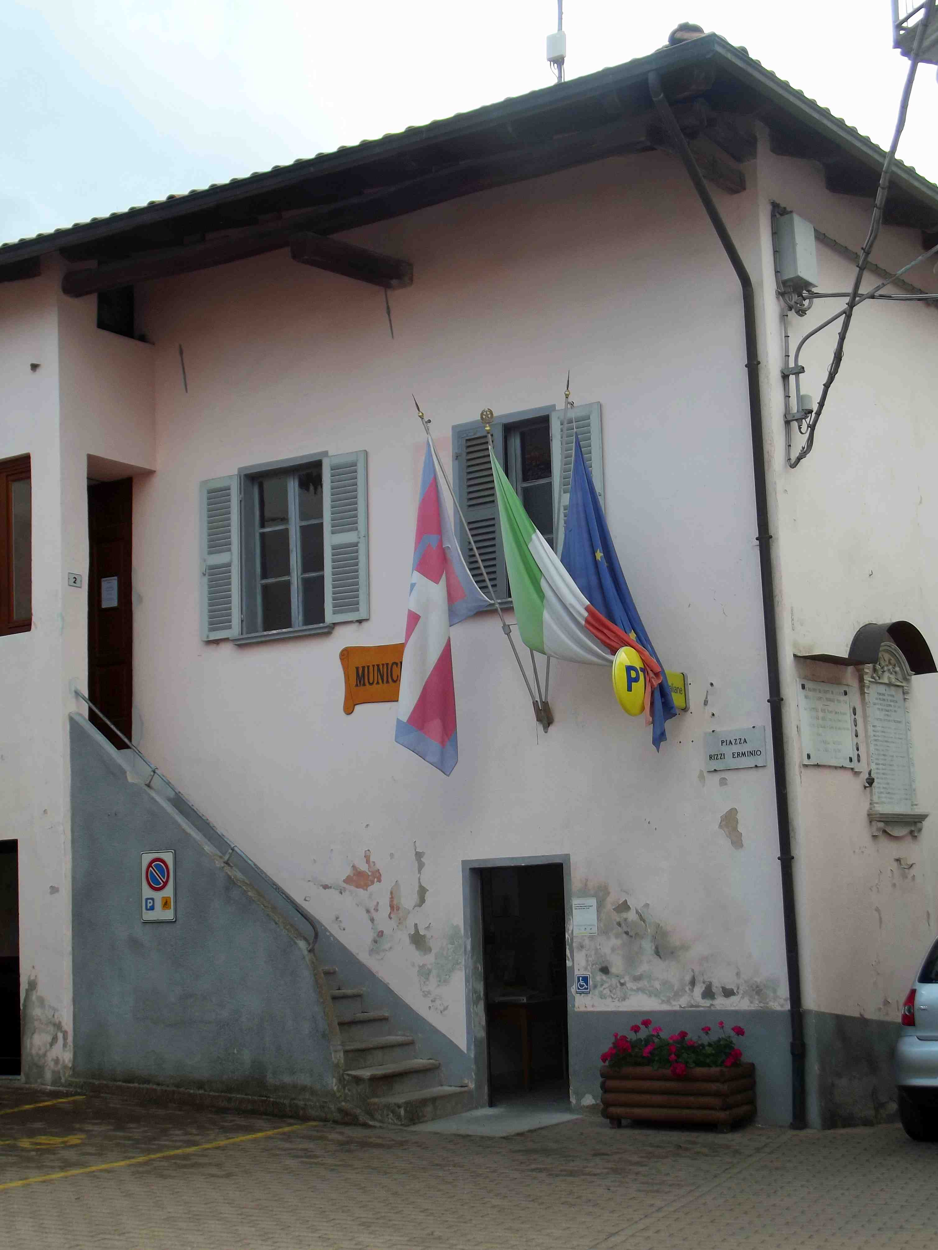 Ailoche (BI, Italy): town hall